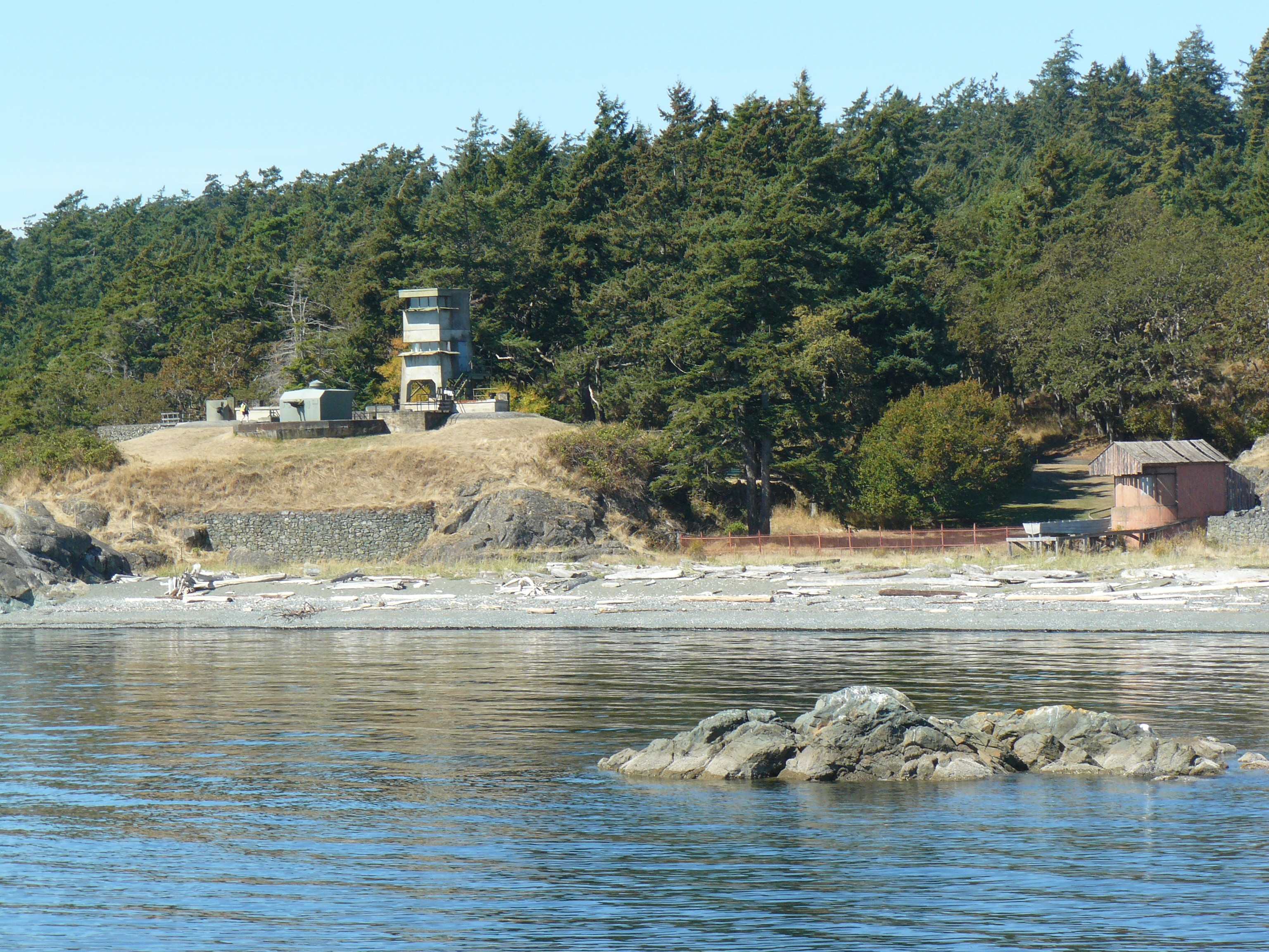 Gun Emplacement, Magazine and Directors Tower, Belmont Battery Classified Federal Heritage Building